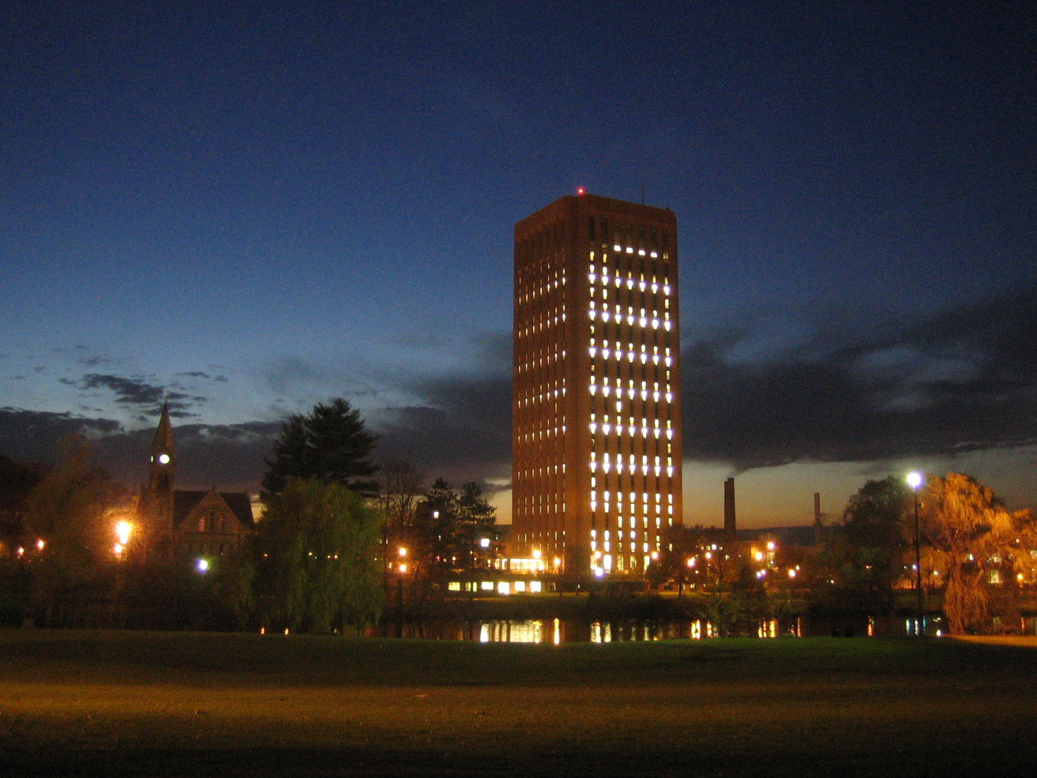 UMass at Amherst, W.E.B. Dubois Library at night